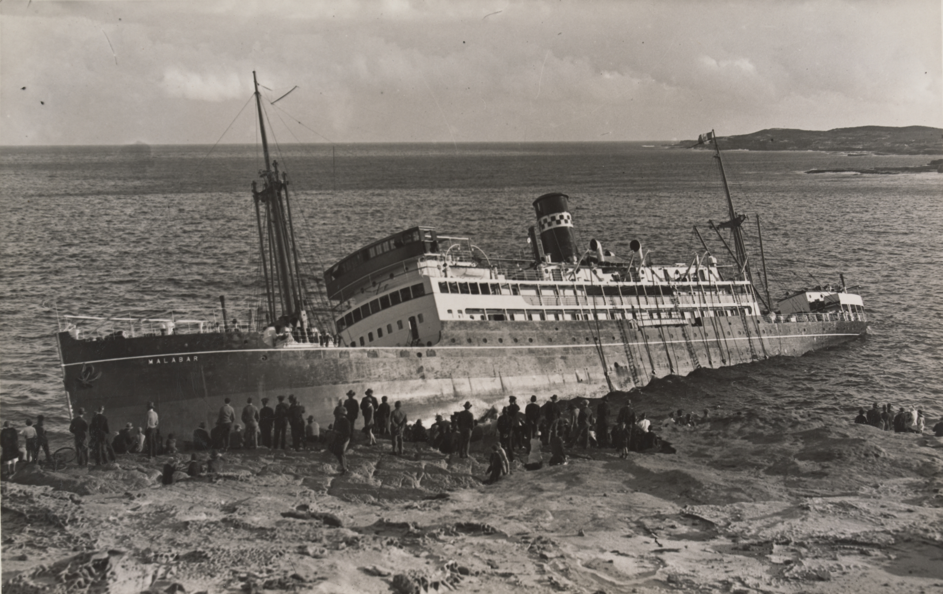 Original caption: “MALABAR WRECKAGE” Argus, Wed. 8.4.1931